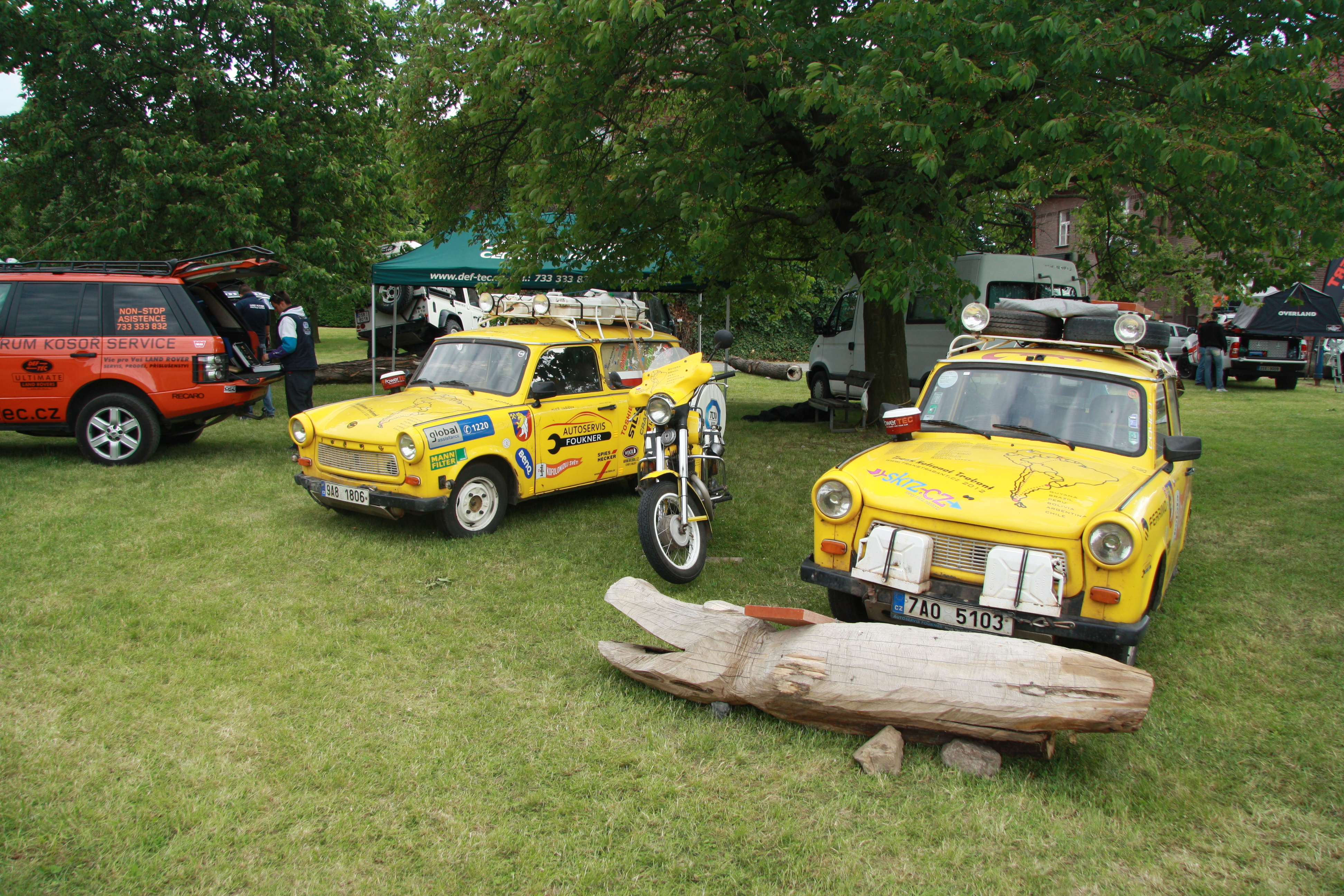 Transtrabant cars at Legendy 2014.